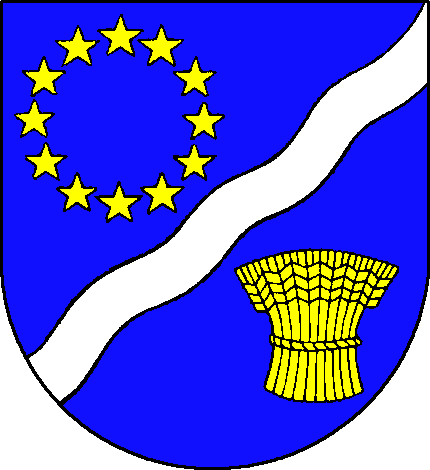 Coat of arms of the municipality Hohenfelde in Schleswig-Holstein, Germany.